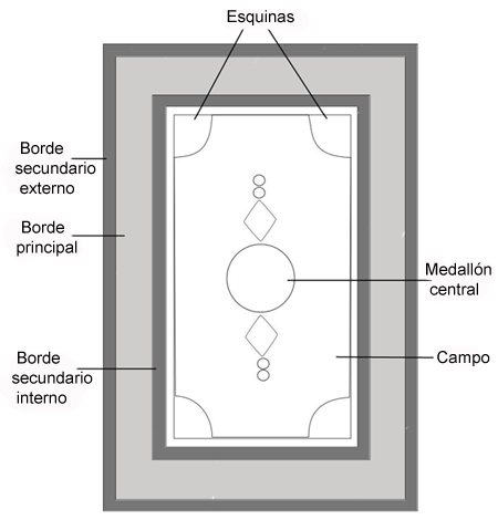 Rug composition scheme